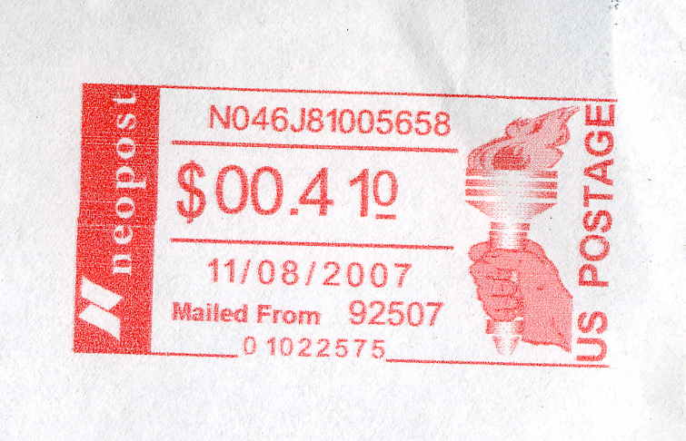 An example of the U.S. postage meter marking made with a neopost mailroom system (detail). 2007.